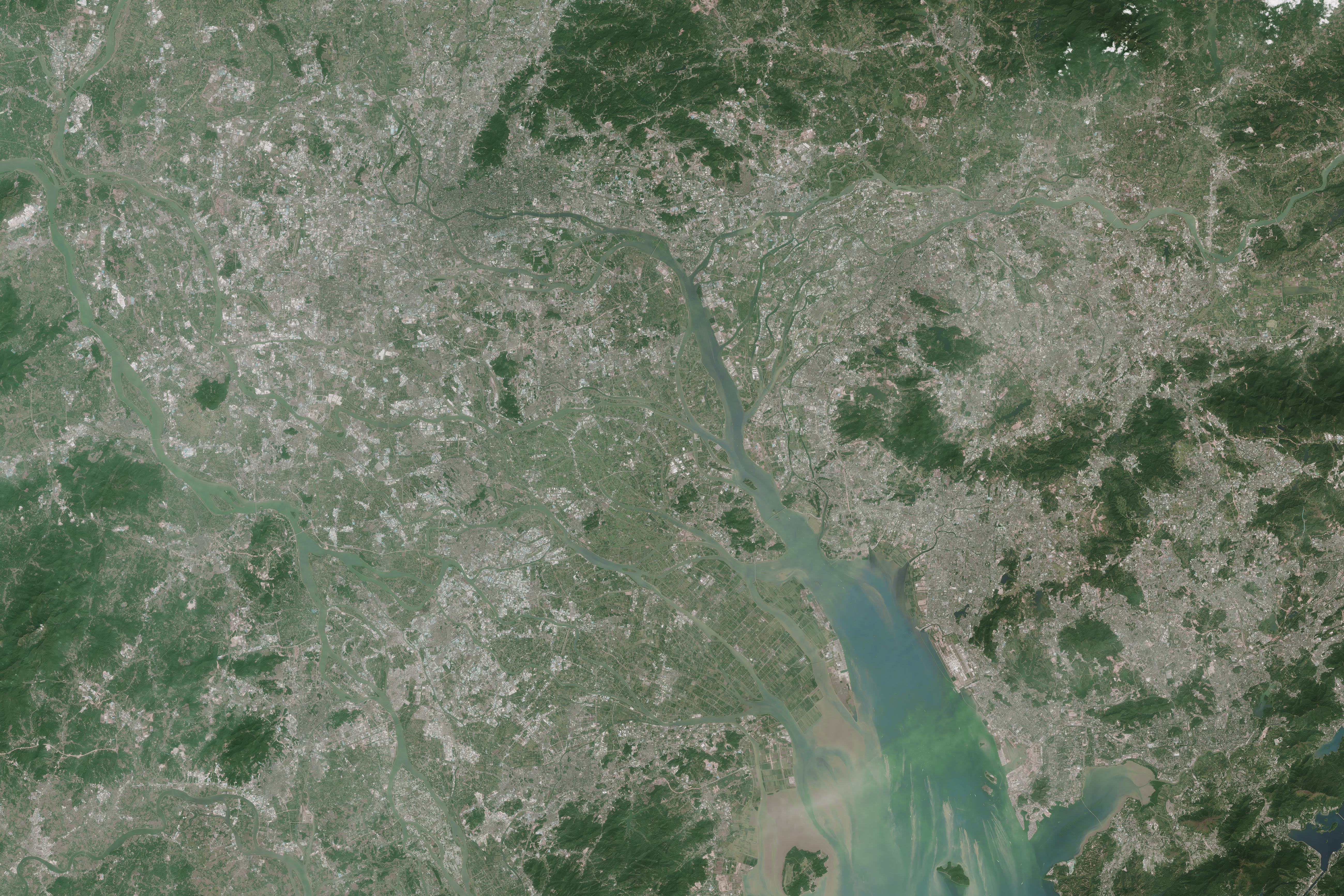 This is a 2014 image of The World’s Largest Urban Area from the NASA Earth Observatory.